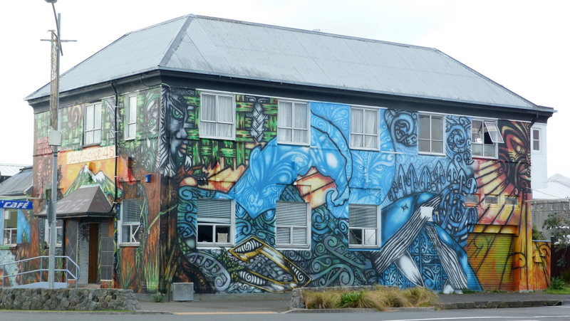 Surf Lodge 45